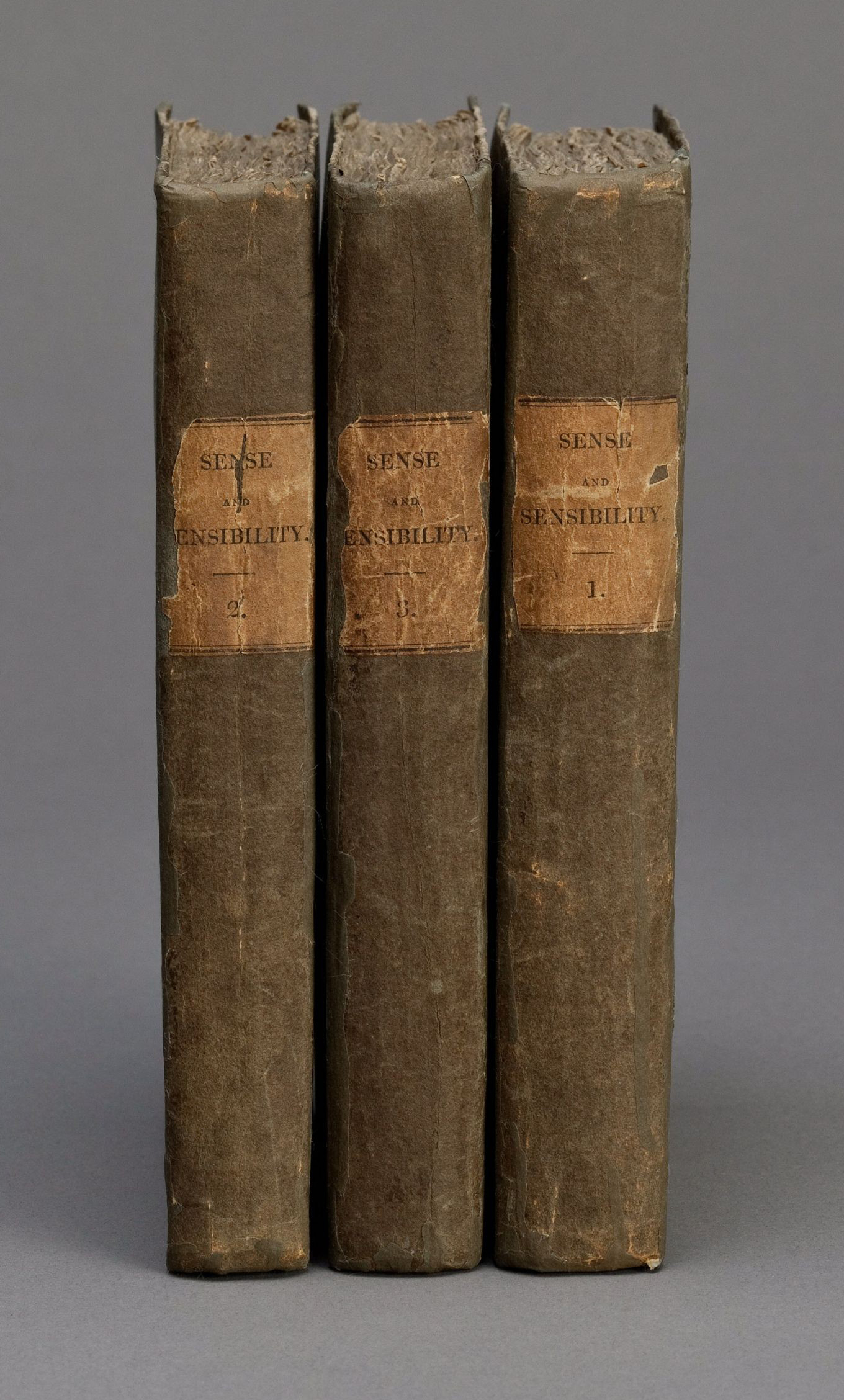 Photograph showing the spines of the three volumes of Sense and Sensibility: a novel, London: 1811, by Jane Austen (1775-1817). First edition. *EC8 Au747 811s (B), Houghton Library, Harvard University